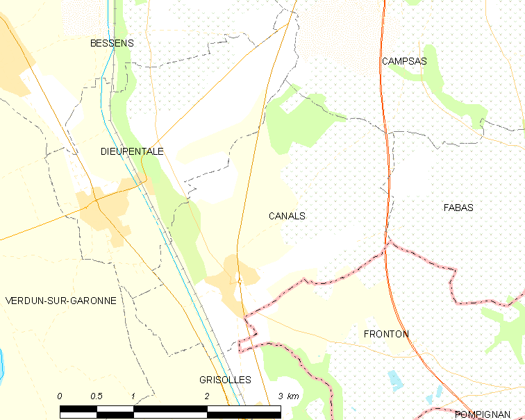 Map of French municipality Canals